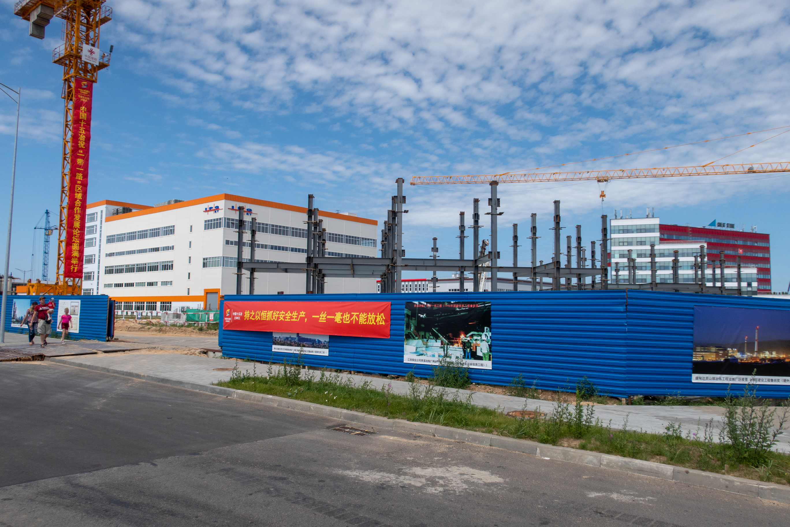 "Great Stone" industrial park (Belarus)